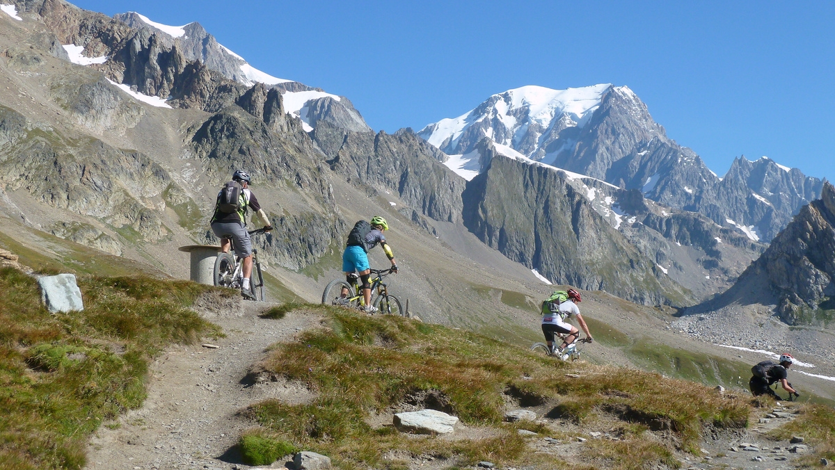 All mountain to col de la Seigne (from France to Italy)